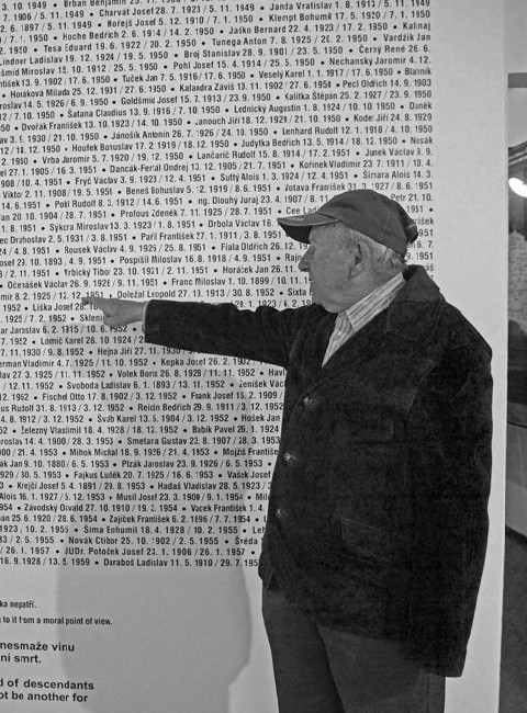 Photo of František Zahrádka in the memorial Památník Vojna.